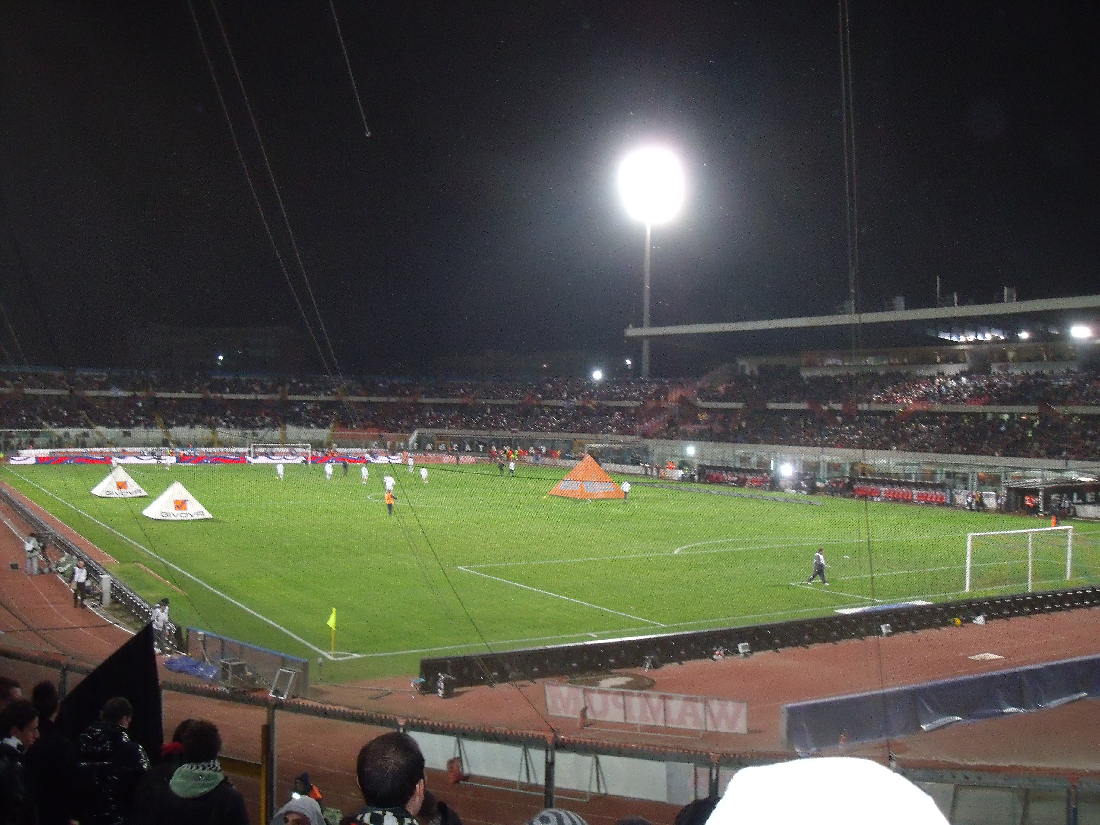 Cibali Stadium of Catania from Visitors Side